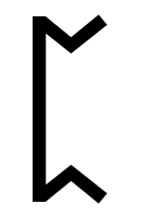 runic letter pertho